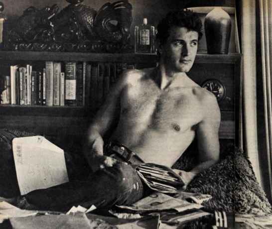 Rock Hudson photographed in 1953